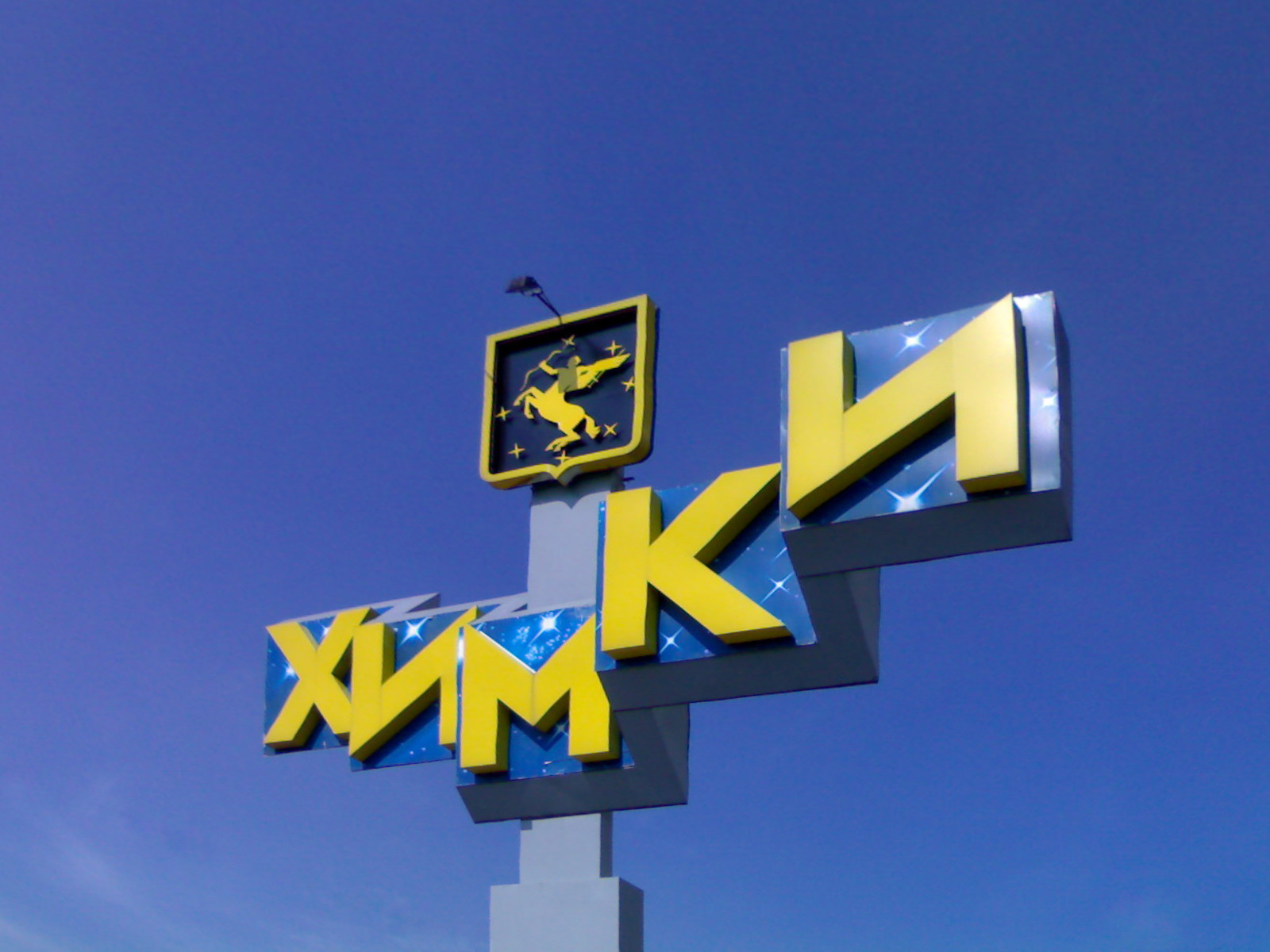 Stella-pointer at the entrance to Khimki.